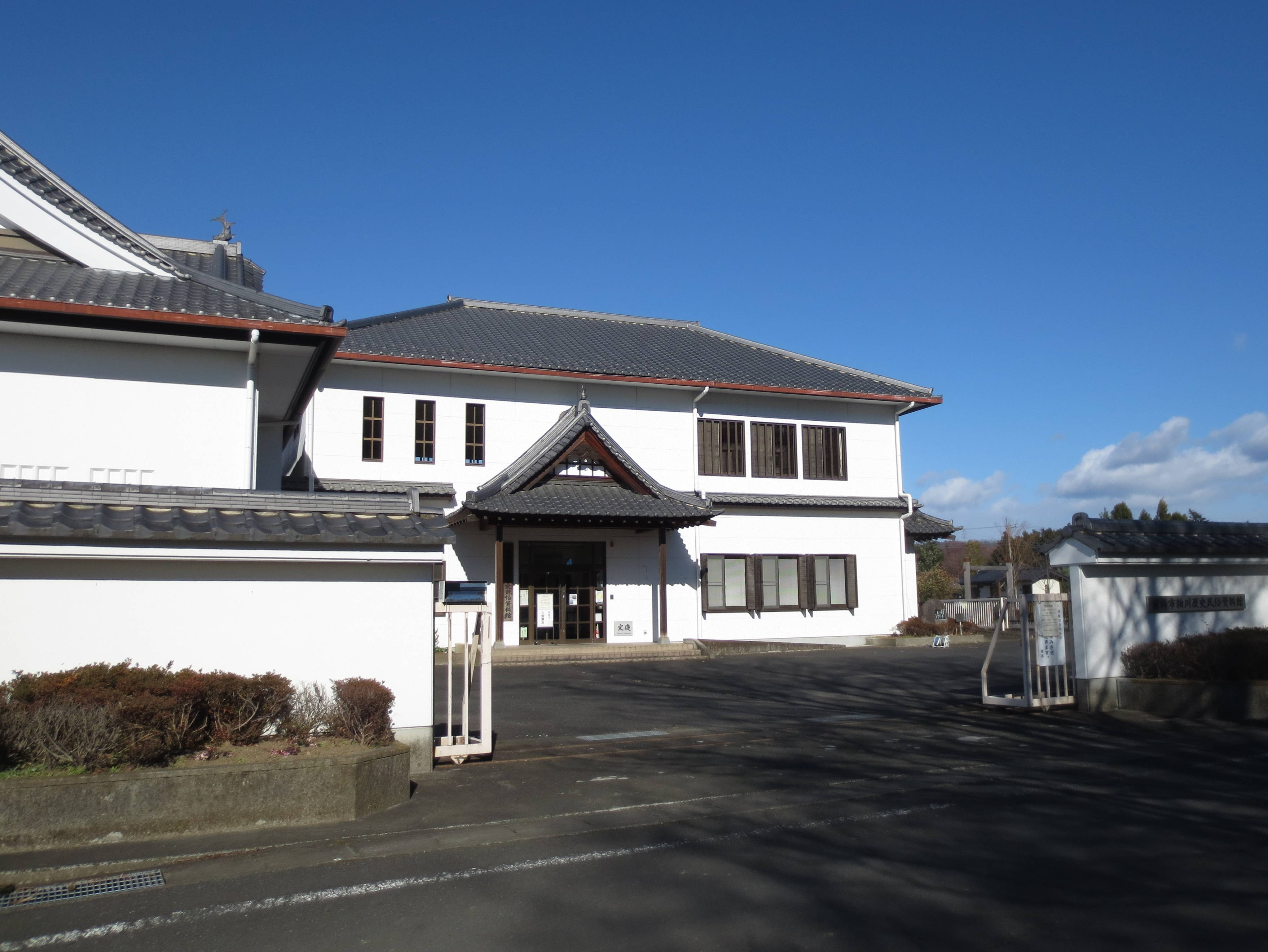 Maebashi city Kasukawa Museum of History and Folklore.